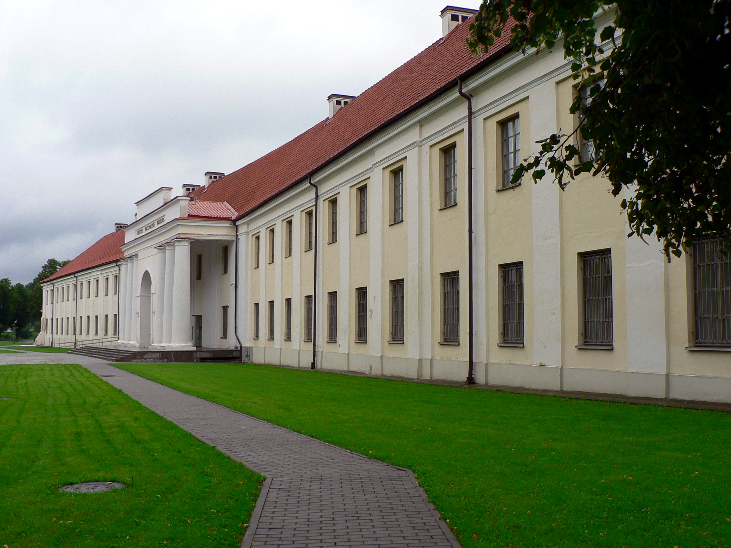 New Arsenal Building, Vilnius, Lithuania